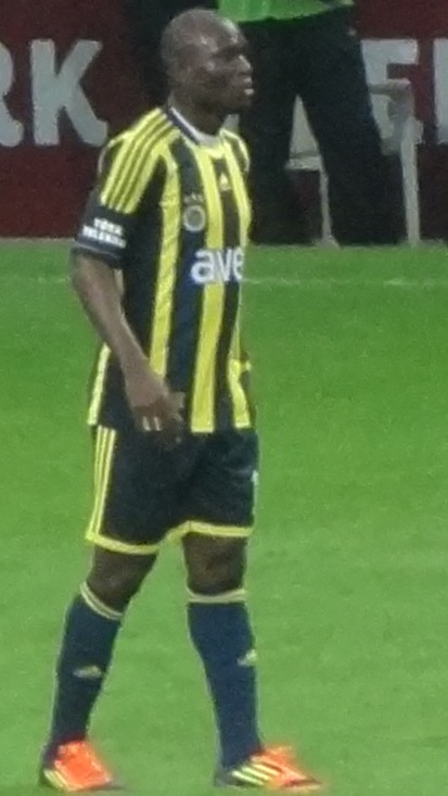 Bienvenu vs GS